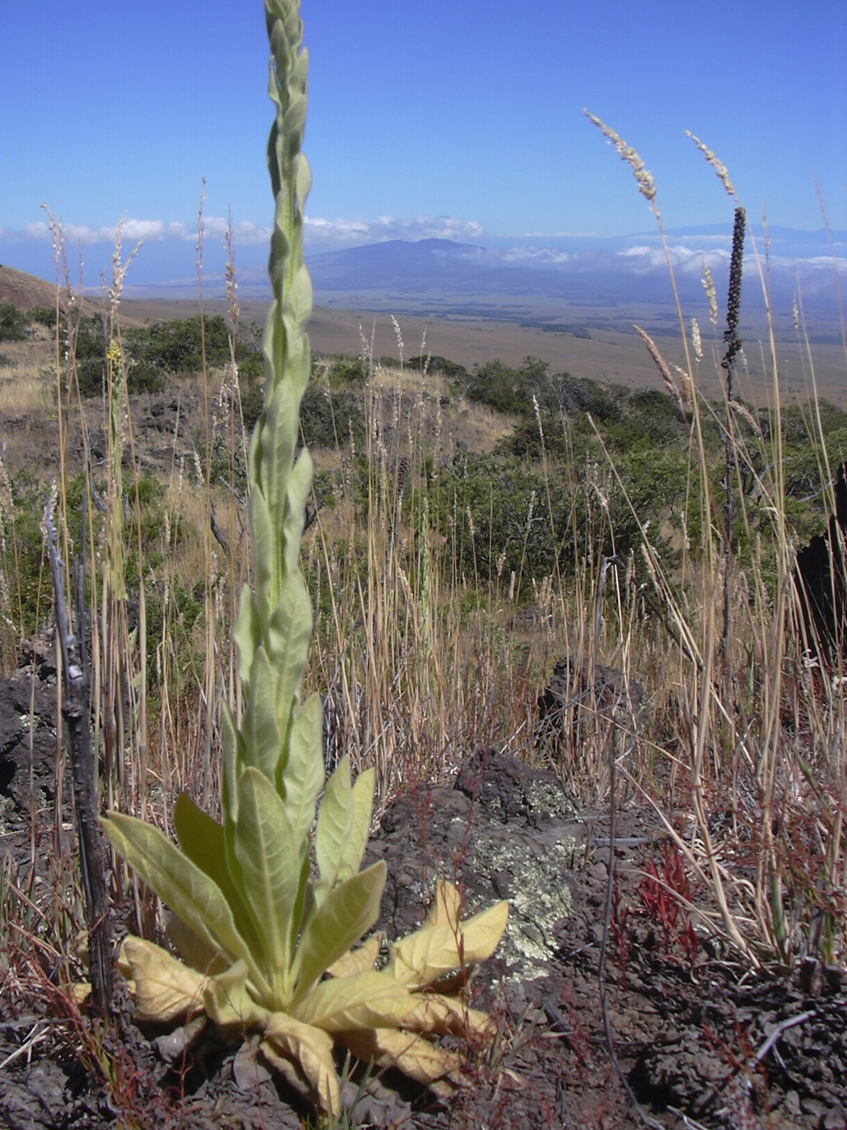 Verbascum thapsus (bolting). Location: Hawaii, Puu Mali